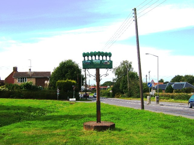 Eight Ash Green Village Sign, Essex. Eight Ash Green lies about 4 miles west of Colchester off the A12. The village sign is located on the green at the junction of the A1124 Colchester to Halstead road and Turkey Cock Lane in Seven Star Green!